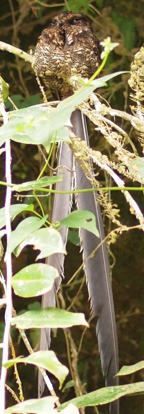 Ecuador, Mindo